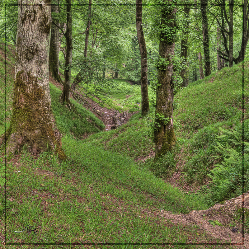 جنگل دالیخانی در جنوب شهرستان رامسر استان مازندارن